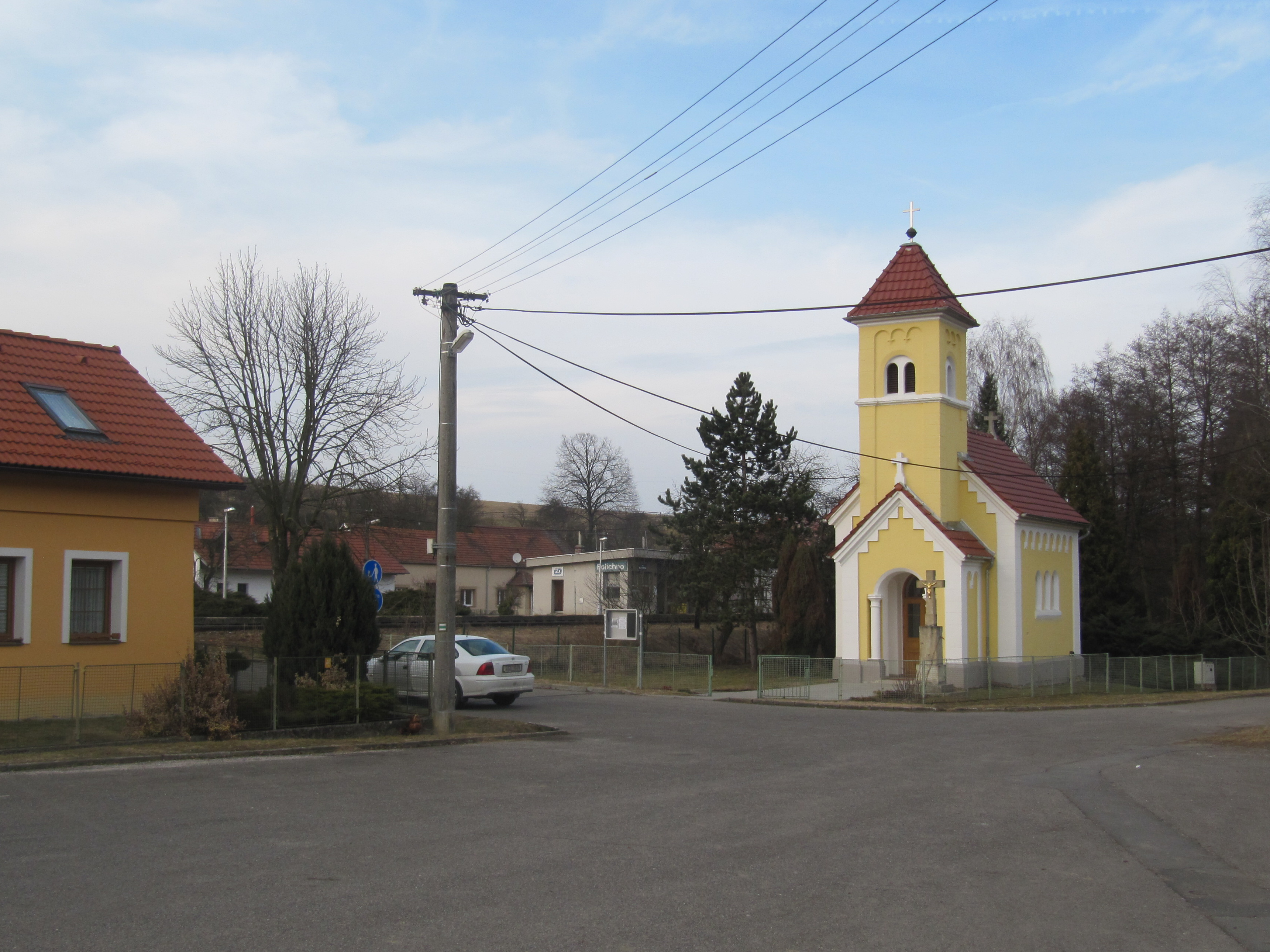 Luhačovice in Zlín District, Czech Republic, part Polichno. Common with chapel, train station in the background.